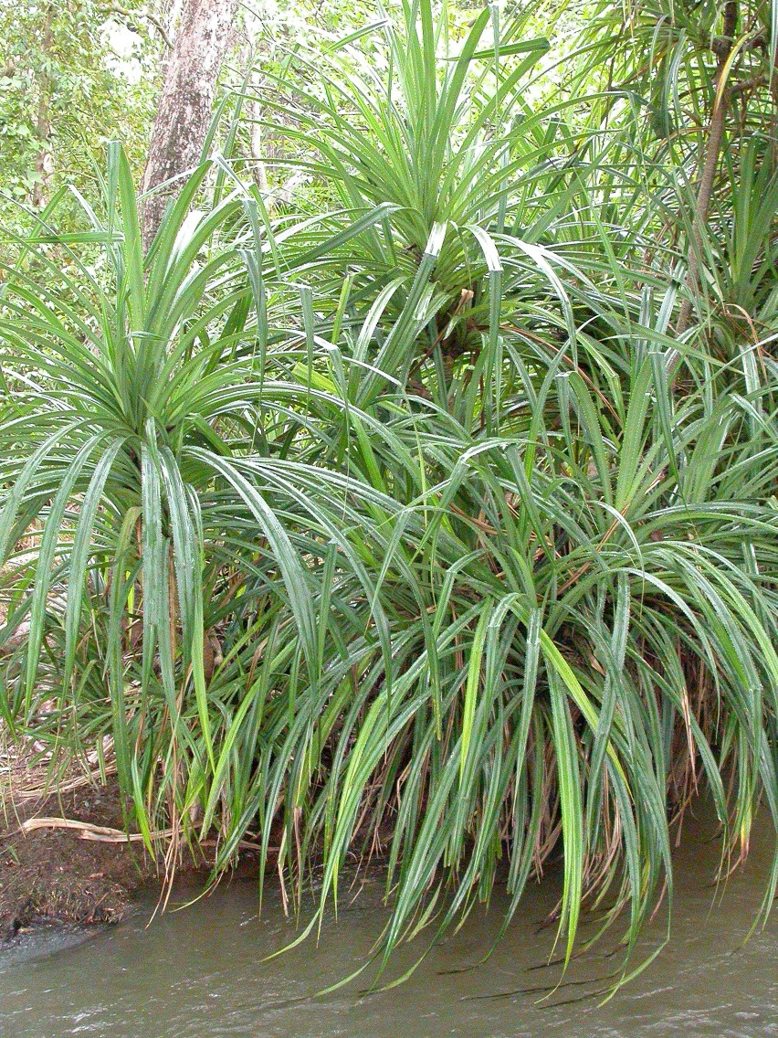 Pandanus senegalensis at the Cascades de Banfora in Burkina Faso